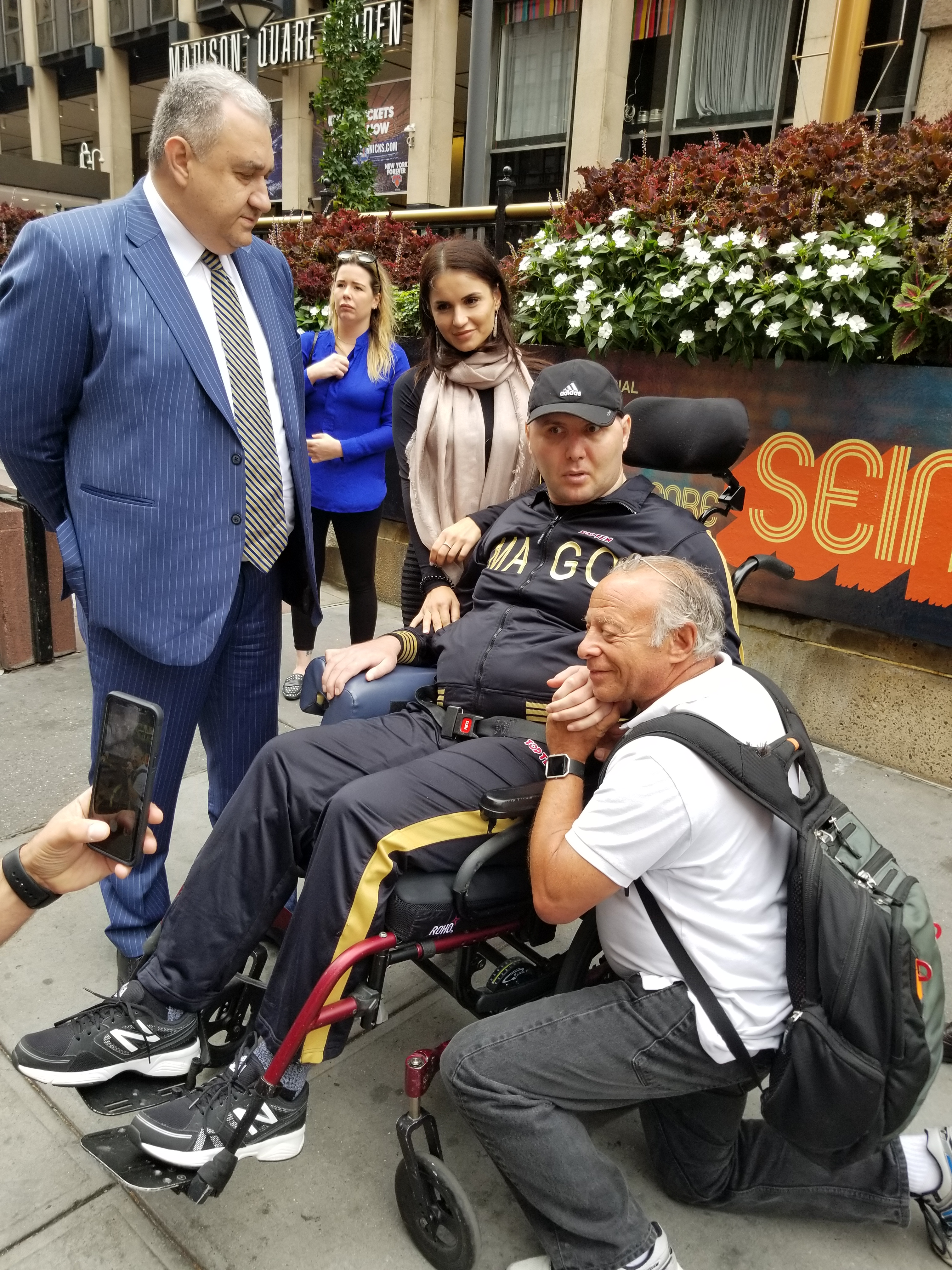 Former Boxing Commissioner Randy Gordon consoled fighter Magomed Abdusalamov at a press conference about boxing safety